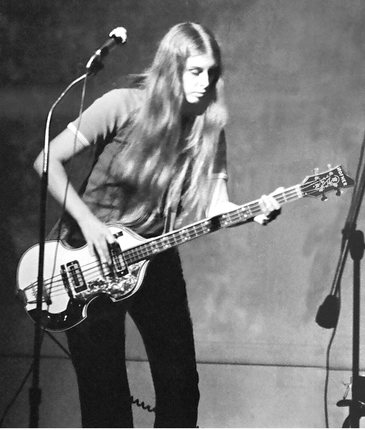 Wendy Penney playing her 1969 Hofner bass guitar, model 5000/1. Hofner made a small number of these basses for one year only as a commemorative special edition in honor of Paul McCartney. Unlike Paul's, it is right handed, all blonde, with gold plated hardware, special pearl inlay, and active electronics, a rarity for basses in 1969. Wendy Penney was a cofounding member of the bands ROGER AND WENDY, EUPHORIA, and BERMUDA TRIANGLE BAND. She was also known for her exceptional voice.